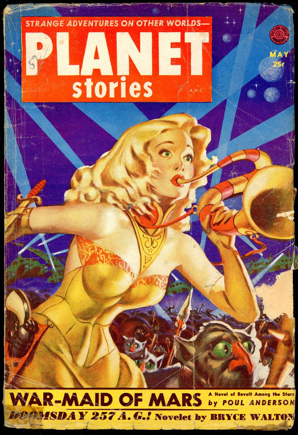 Cover of Planet Stories, May 1952